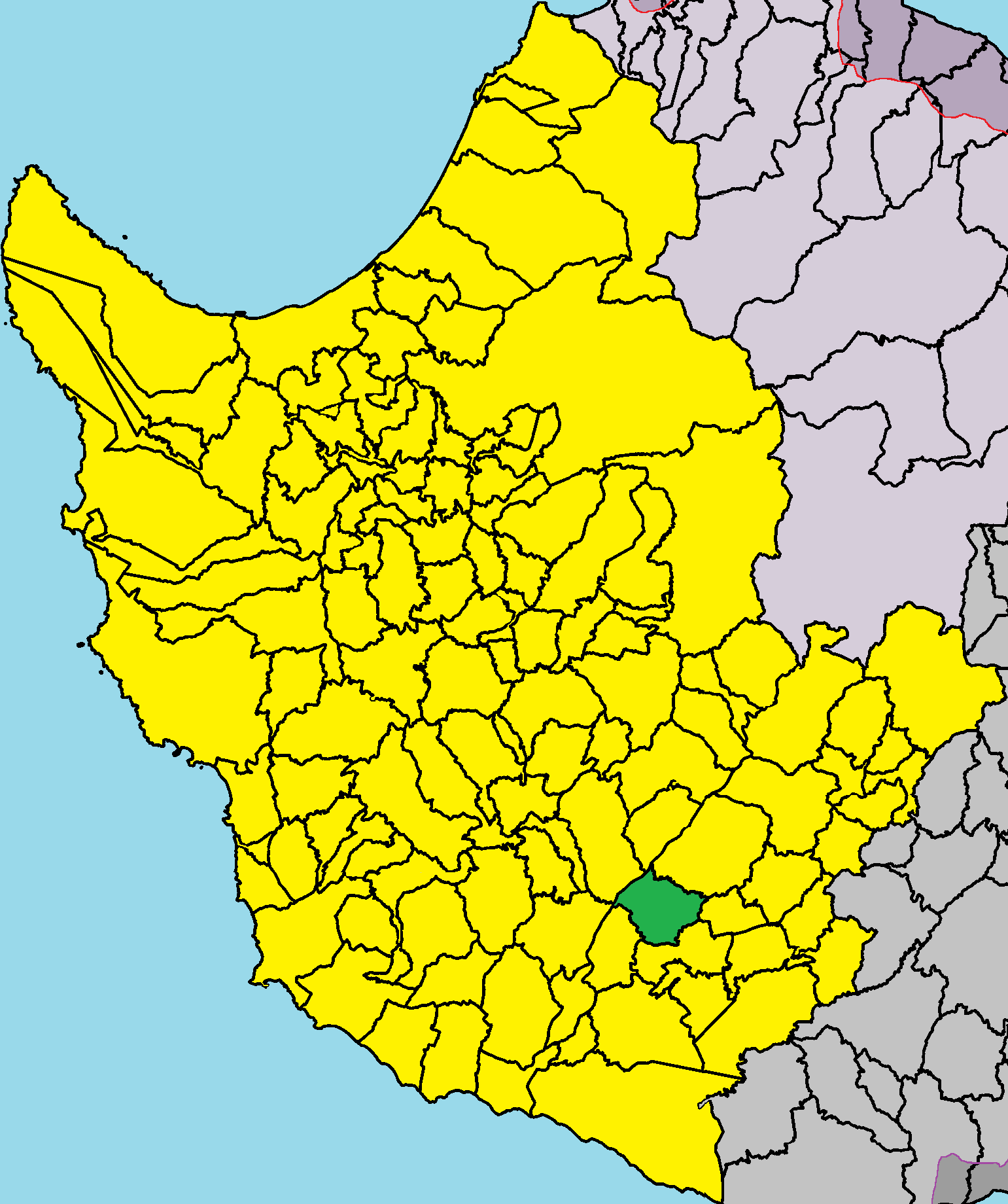 Stavrokonnou in Paphos District.